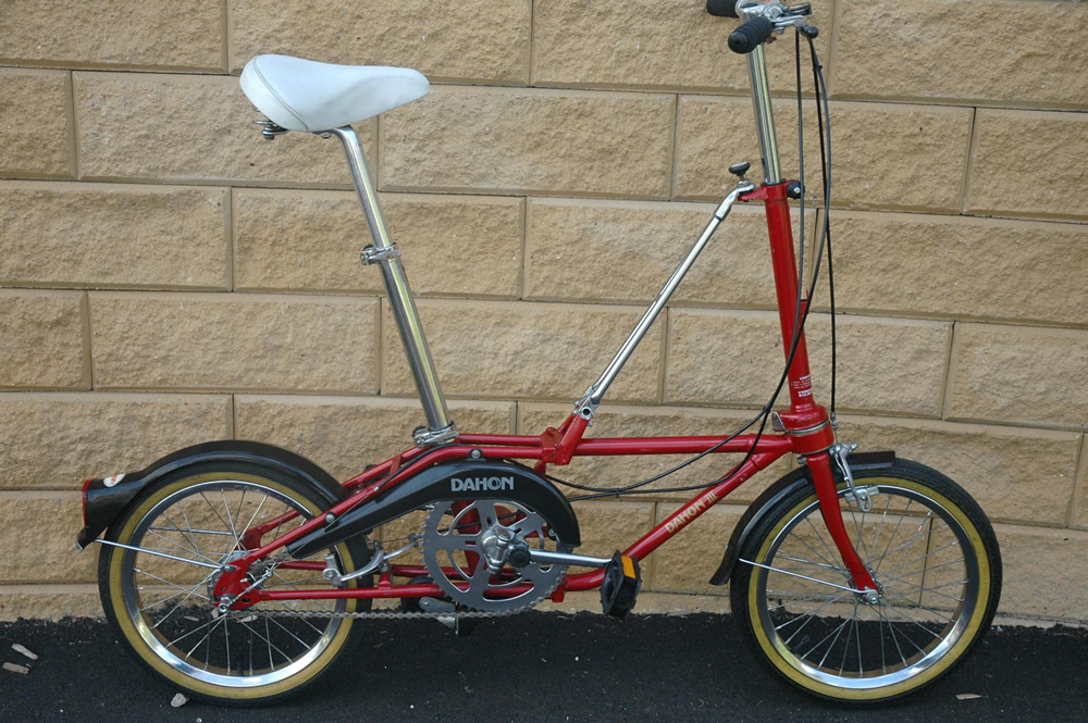 First generation Dahon drive side